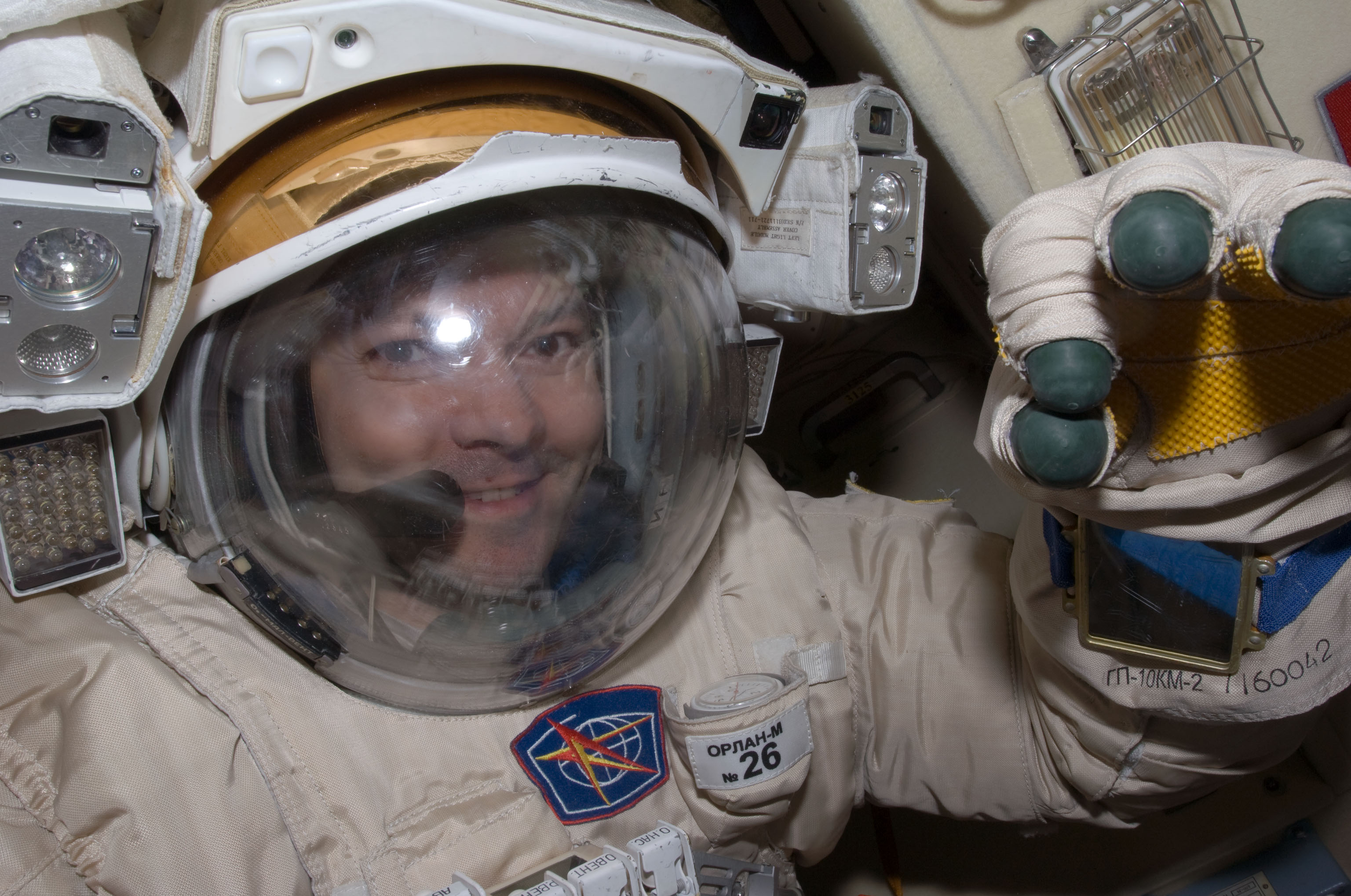 Attired in his Russian Orlan spacesuit, Russian Federal Space Agency cosmonaut Oleg Kononenko, Expedition 17 flight engineer, prepares for the spacewalk scheduled for July 10. During the full dress rehearsal "dry run", Kononenko and cosmonaut Sergei Volkov (out of frame), commander, tested translation capability and the status of the suits' communications gear and other systems while in the Pirs Docking Compartment of the International Space Station.